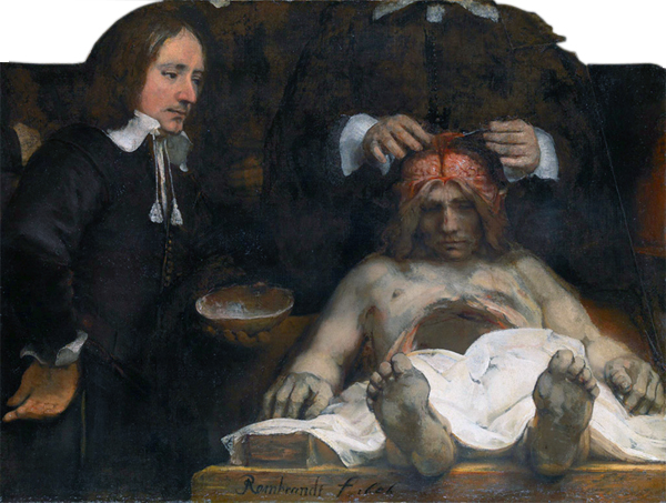 Rembrandt’s second anatomy lesson is a fragment of a group portrait. In 1723 most of the canvas was destroyed by fire. The remaining central section shows Dr Jan Deijman performing an autopsy on a dead men’s brains. The assistant is holding the top of the skull. Rembrandt has presented the dead man in a foreshortening so that the dissecting table appears to be protruding out of the picture.